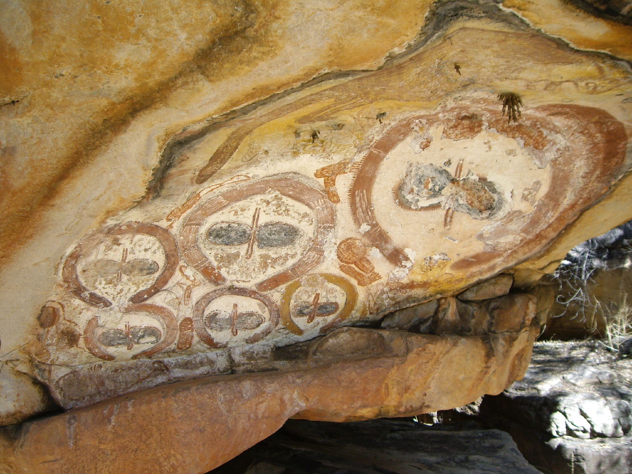 This is a photograph of some Indigenous Australian rock art in the wandjina style, located in the Kimberley region of Western Australia